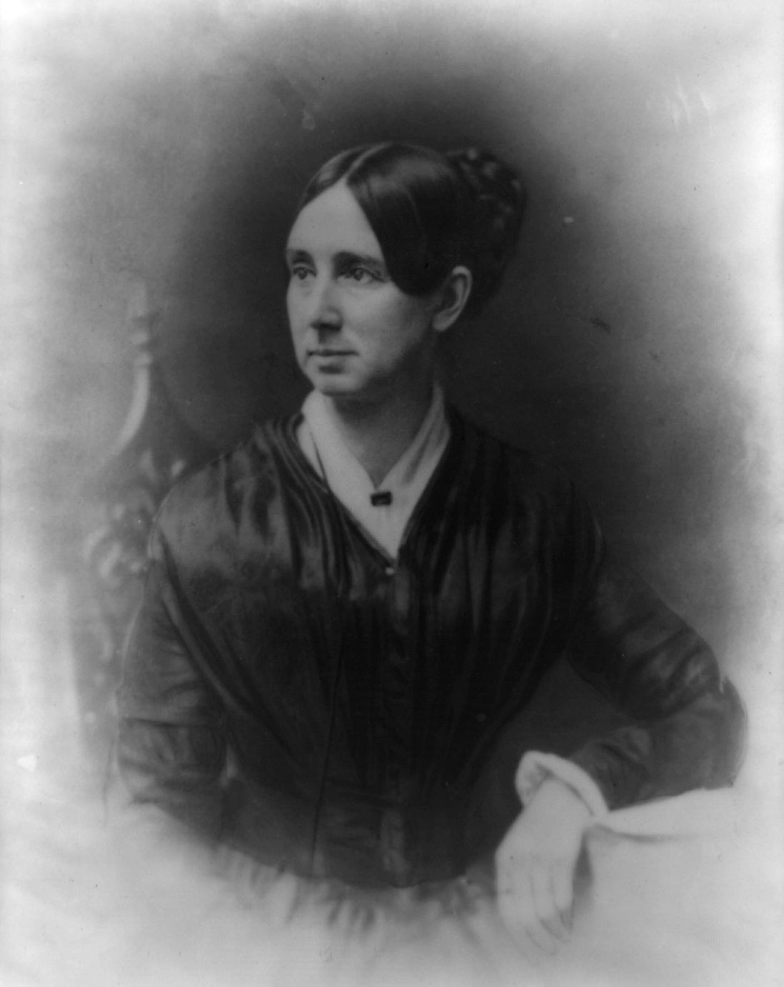 U.S. Library of Congress DIX, DOROTHEA LYNDE. Retouched photograph. [No date found on item.] Location: Biographical File Reproduction Number: LC-USZ62-9797